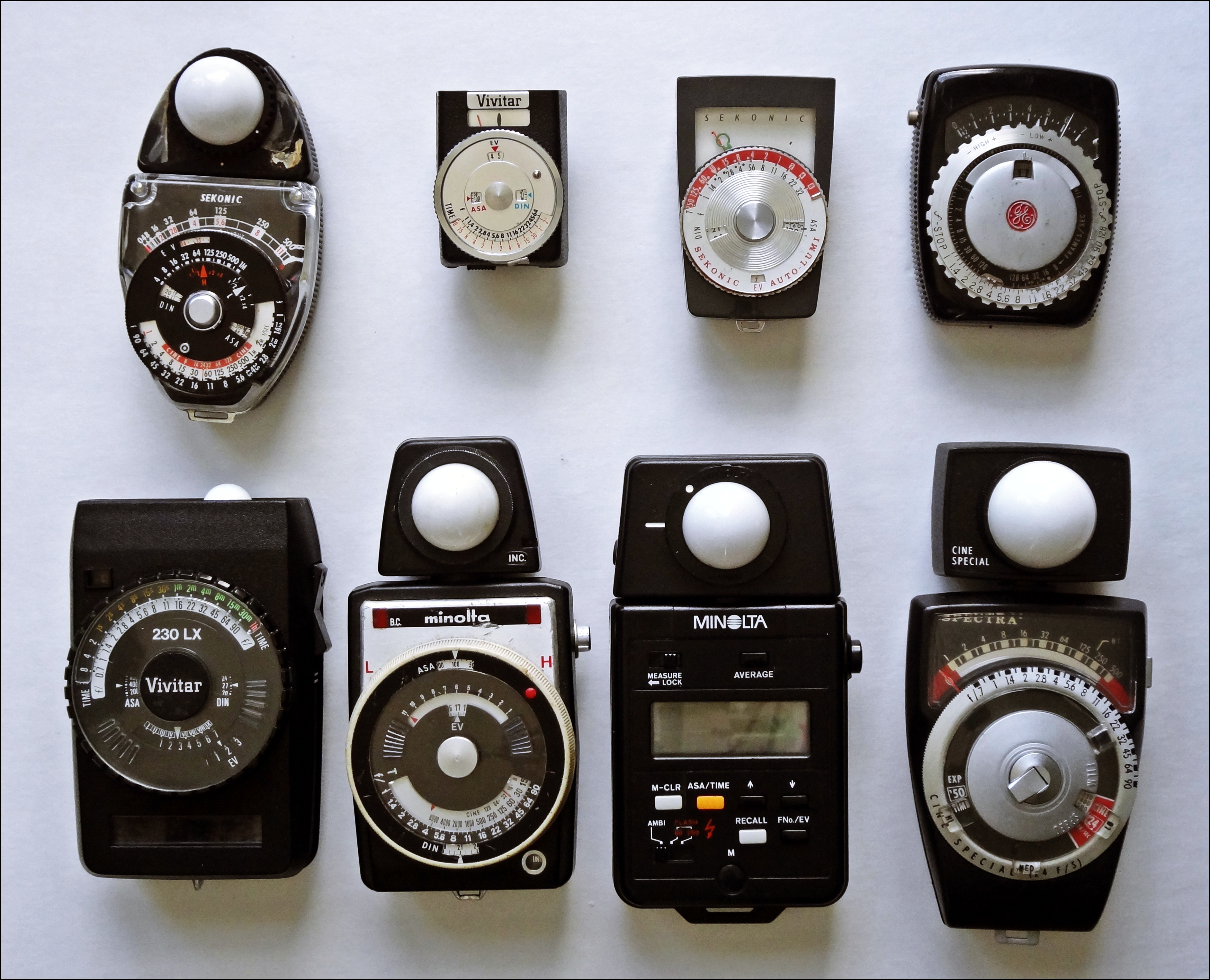 A few light meters from my collection.